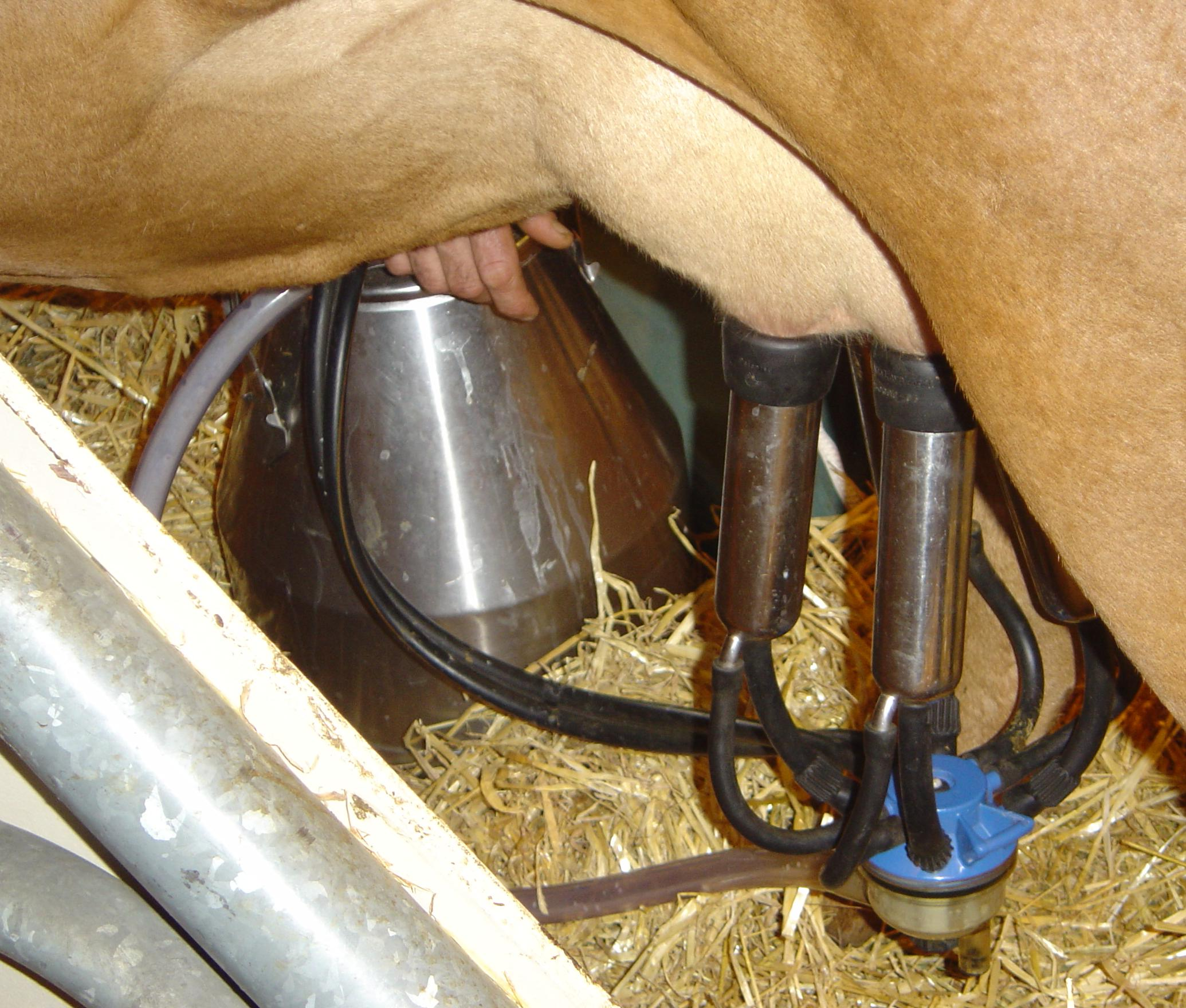 A cow milking machine Français Cette photo a été prise le 7 mars 2003 au Salon de l'agriculture à Paris, France English This photo was taken on March 7, 2003 at the Salon de l'agriculture (Agriculture Expo) in Paris, France. The animals presented tend to be exceptional specimens, and are groomed and prepared in order to offer a nicer outlook.